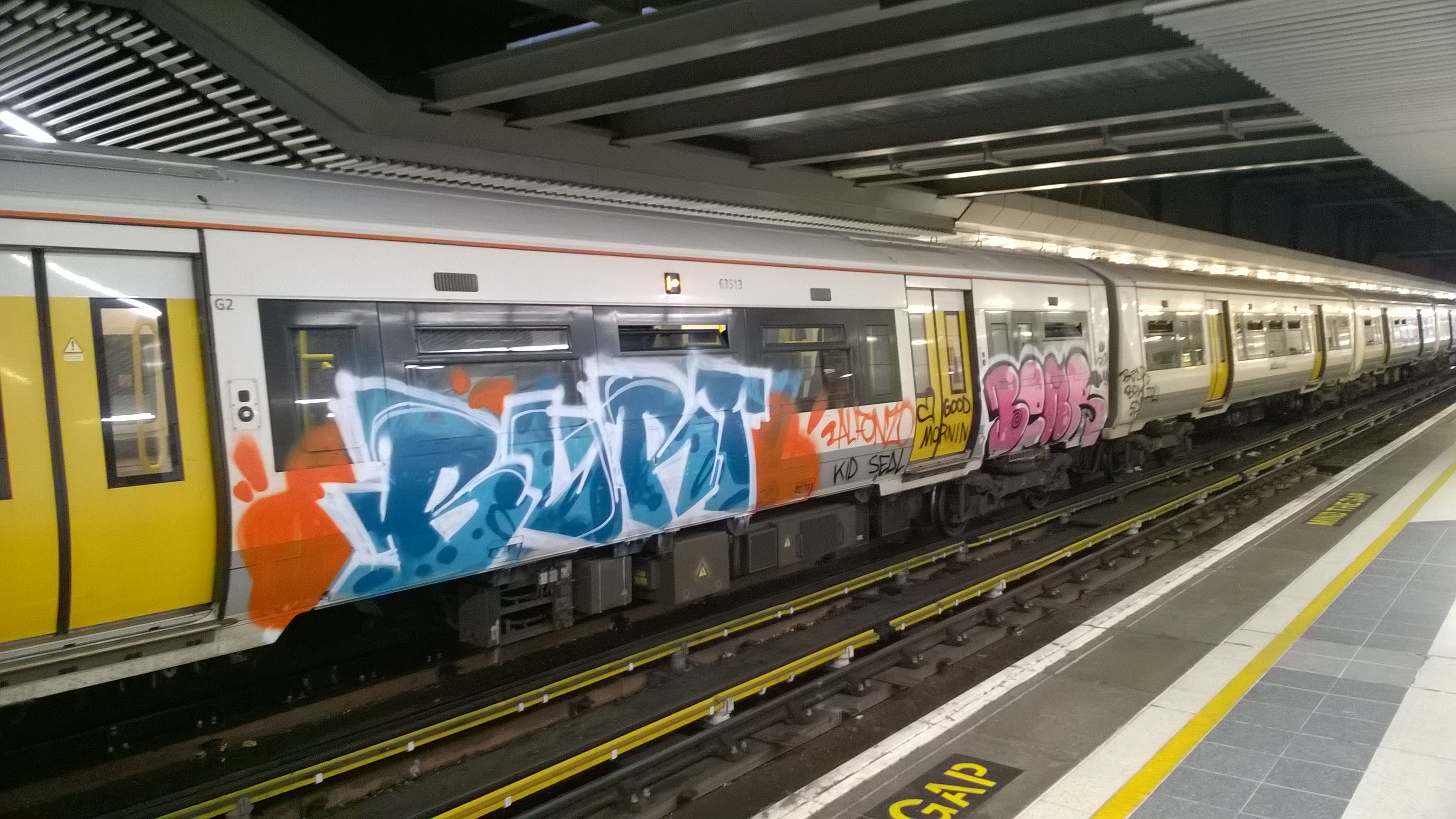 Grafitti on a Class 376 Electrostar at Cannon Street station